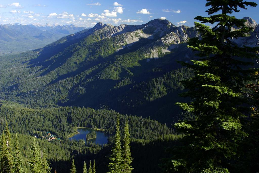 Island Lake Resort Lands, British Columbia, Canada